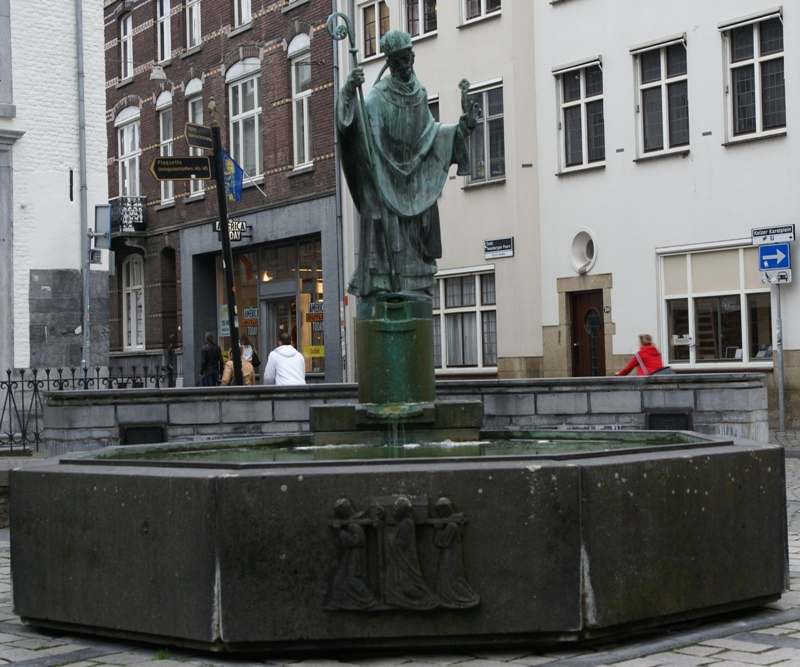 St Servatius fountain, Keizer Karelplein, Maastricht, The Netherlands. By Charles Vos, 1934.